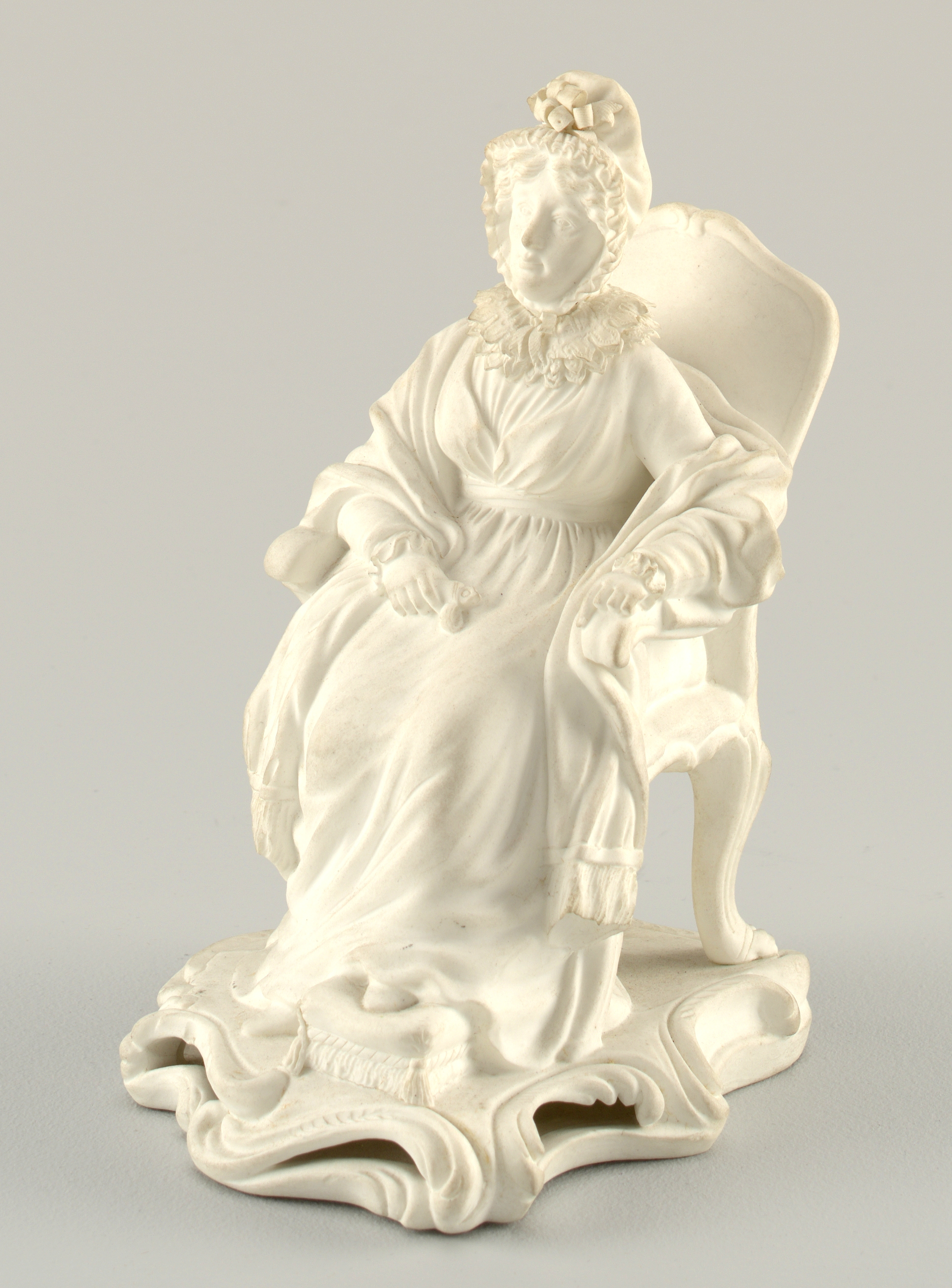 Figure of Hannah More seated on a chair and wearing a bonnet and shawl over her dress, in her right hand she holds a scent bottle, set on a scroll moulded base.